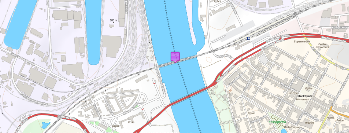 Topographical map showing the Kehl Rail Bridge. France on the left, Germany on the right. Scale 1:5669 This map may be incomplete, and may contain errors. Don't rely solely on it for navigation.